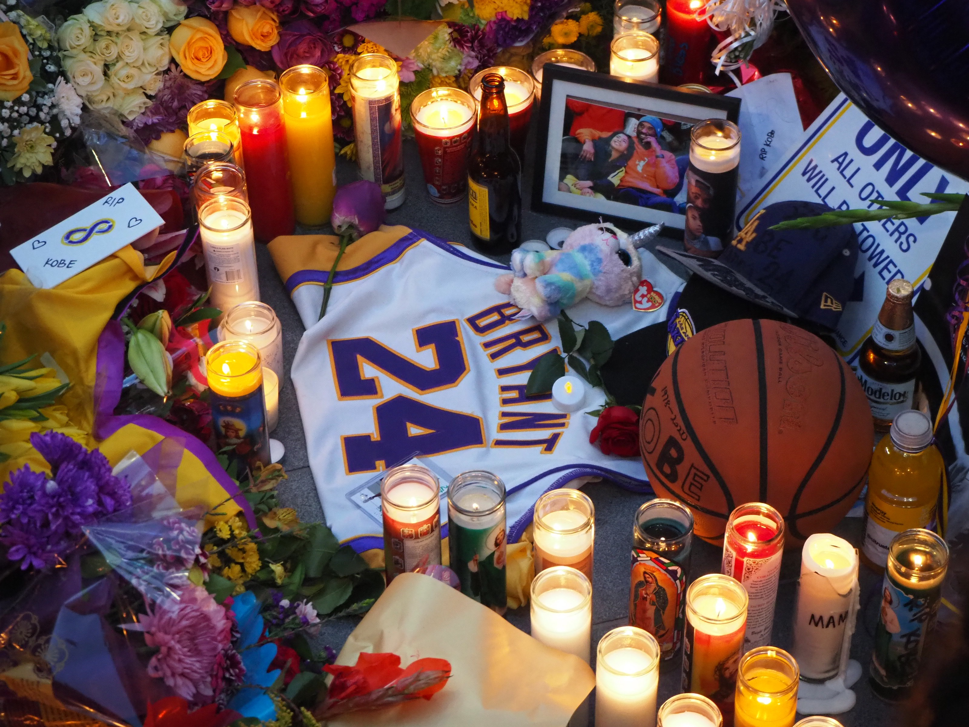 Kobe Bryant memorial at Staples Center on Jan. 26, 2020.